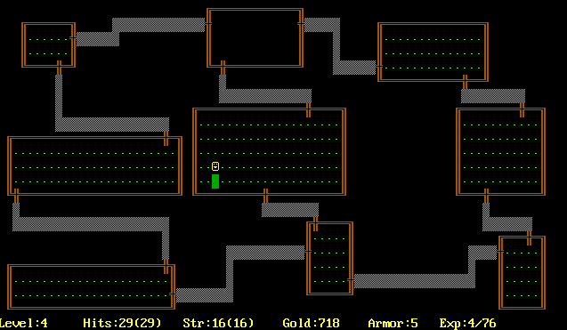 This picture is a Creative Artistic Rendering of the appearence of the Computer Game Rogue. It was created using TheDraw, and Photoshop 4.0.